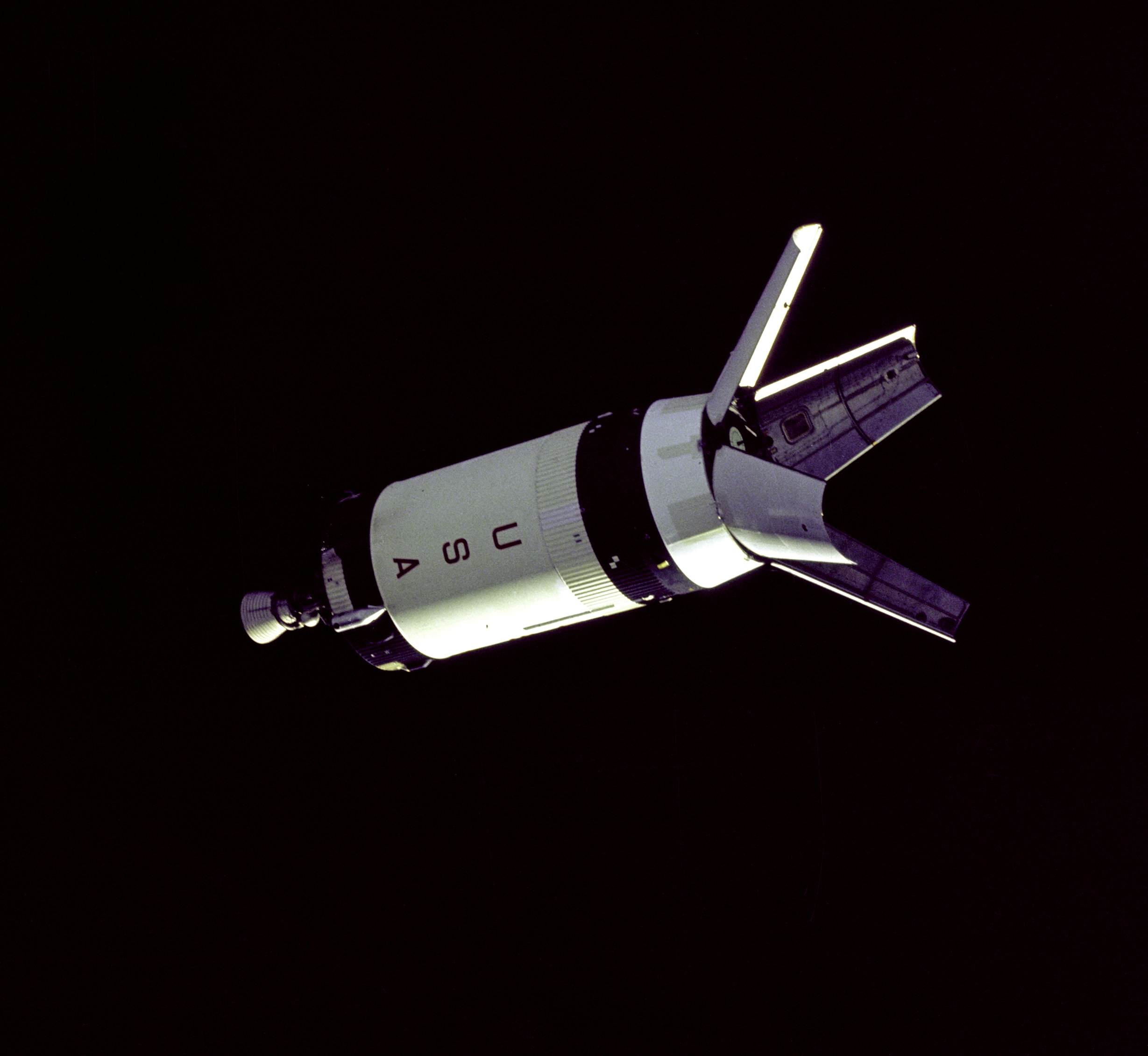 Attached to the Saturn IV-B stage, the Lunar Module Adapter's four panels are retracted to the fully open position. This is where the Lunar Module (LM) is stored during launch. On missions requiring the use of a LM, the four panels would be retracted and jettisoned before rendezvous and docking. This photo was taken during the Apollo 7 mission, when no Lunar Module was carried. The SIV-B stage flew as the second stage on a Saturn IB rocket. It is also used as the third stage on the Saturn V. The Apollo 7 mission was designed to test the Apollo Command and Service Module spacecraft systems specifically. Apollo 9 was the first mission to fly the Lunar Module.